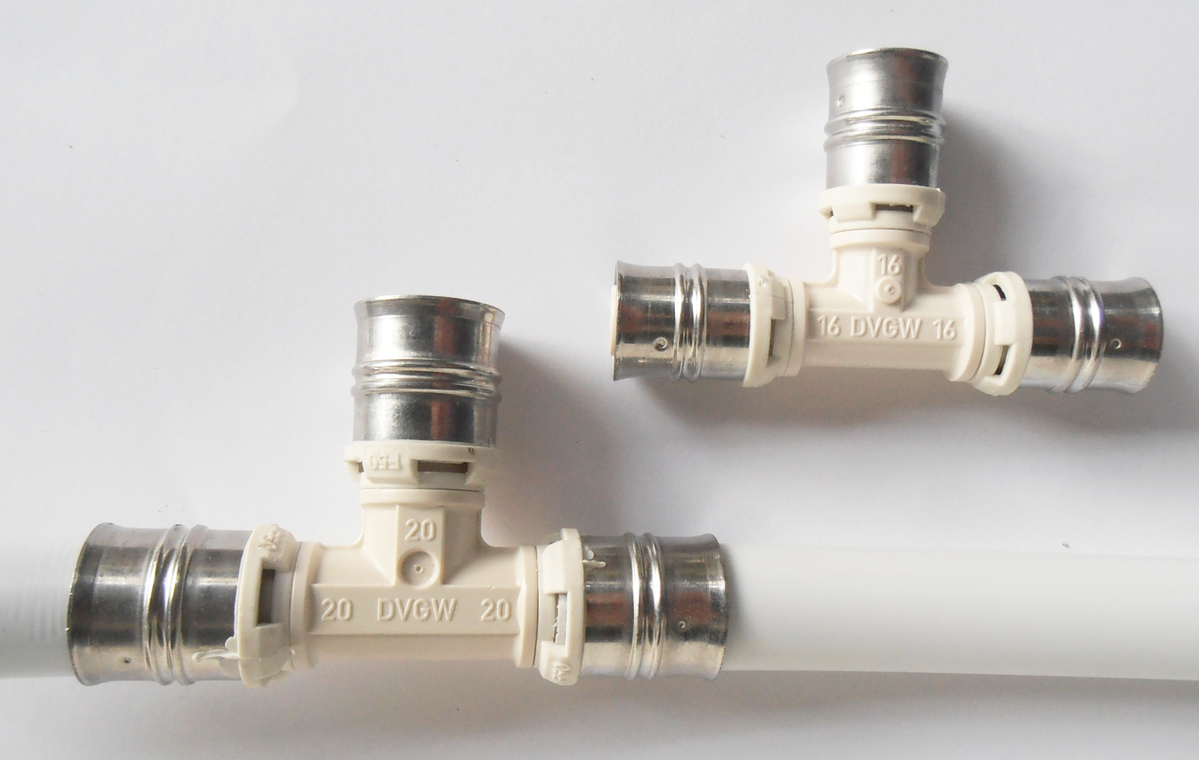 Press fittings: "T" parts; 20/20/20 mm (not yet pressed) and 16/16/16 mm.